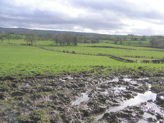 Tonnagh-More Townland. A rather muddy field!